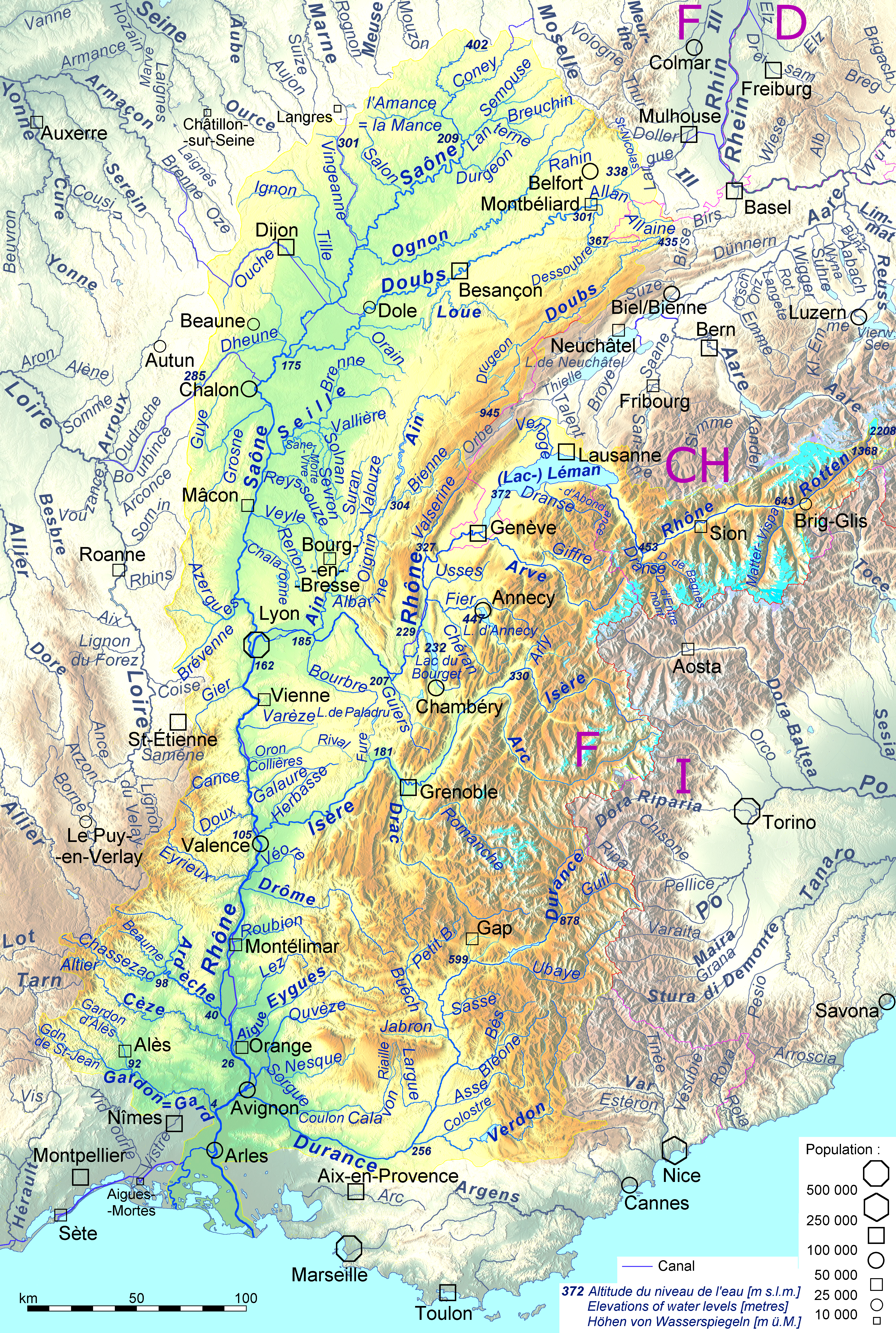 Topographic map of Rhone bassin, linguistically neutral version